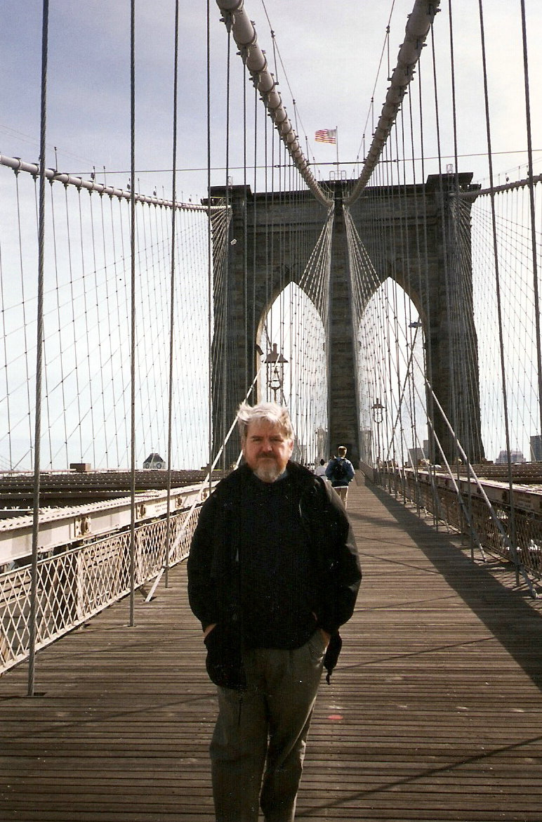 William Irwin Thompson at Brooklyn Bridge 1996 jpeg